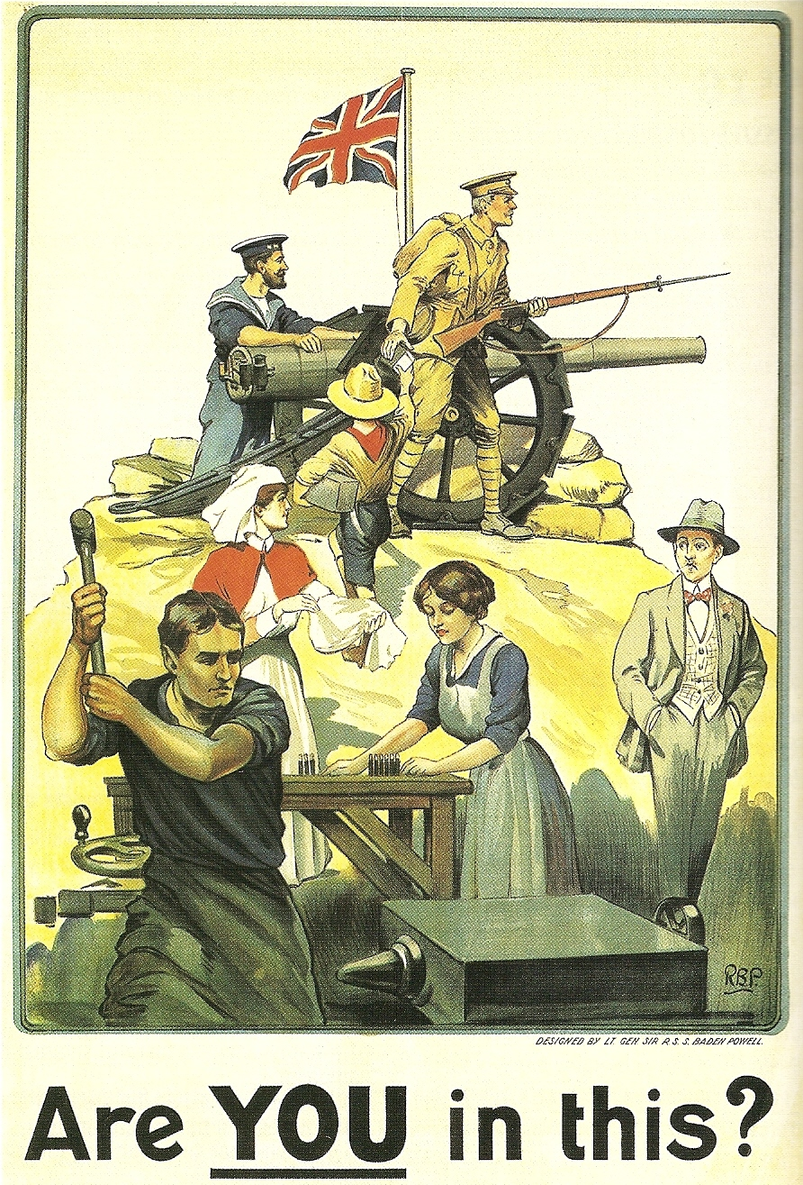 A British government poster used during the First World War to promote the war effort.